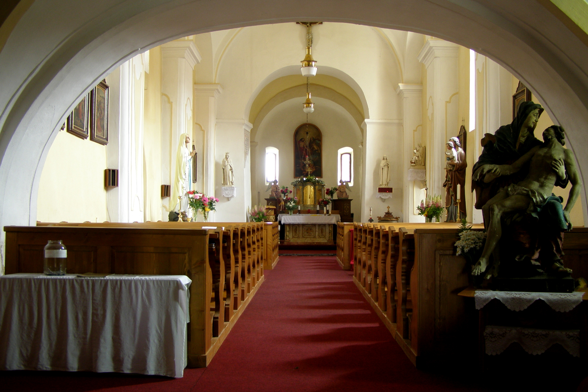 Vladislav. Holy Trinity church -- interior